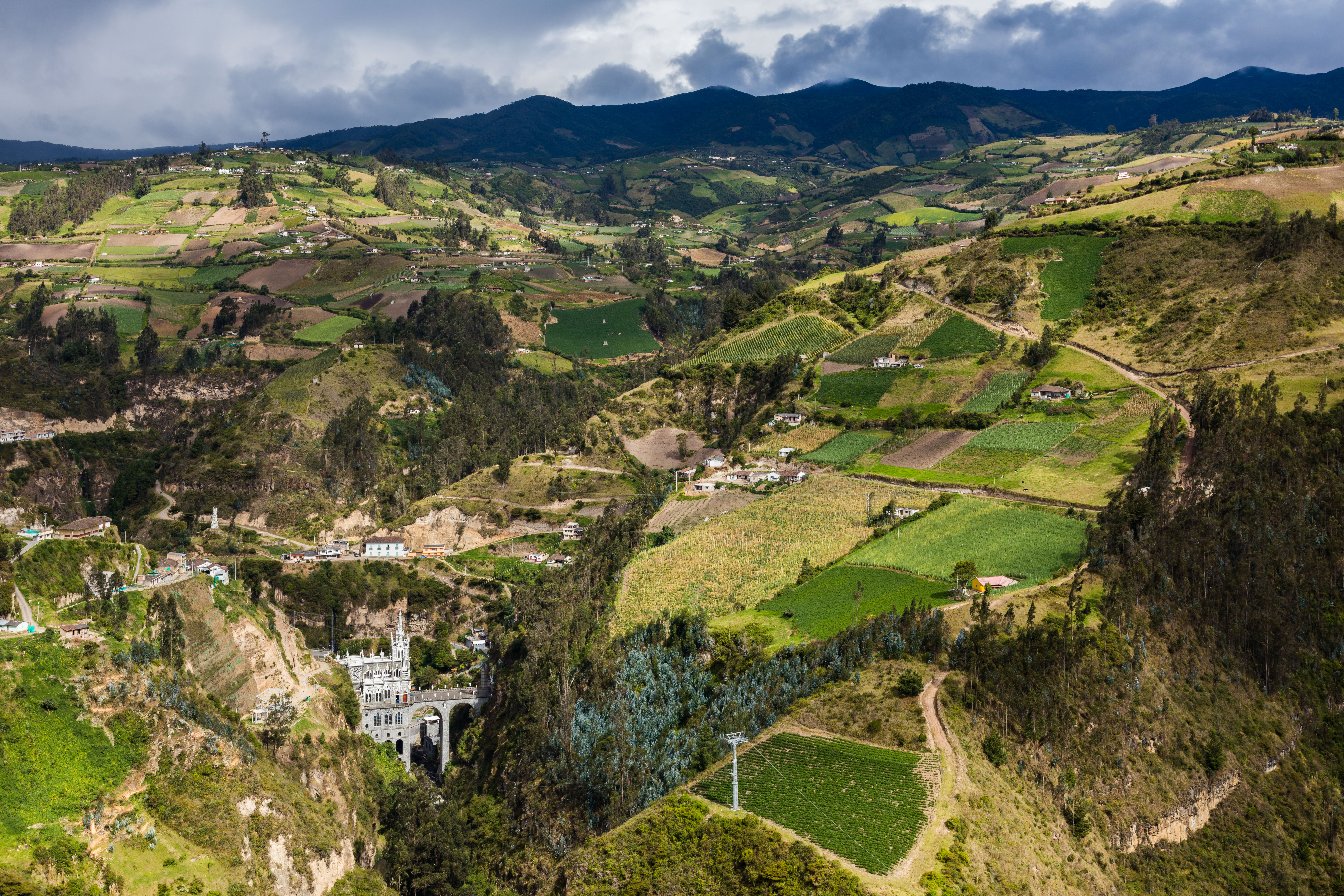 Far view of Las Lajas Sanctuary and its surroundings, a basilica church located in the southern Department of Nariño, municipality of Ipiales, Colombia. The place is a popular pilgrimage location since the apparition of the Virgin Mary in 1754. The first shrine was built by 1750 and was replaced by a bigger one in 1802 including a bridge over the canyon of the Guáitara River. The present temple, of Gothic Revival style, was built between 1916 and 1949.